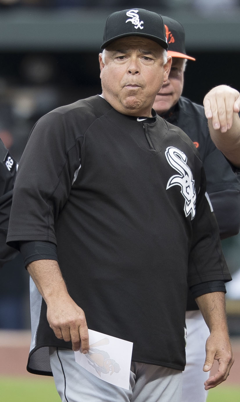 White Sox at Orioles 5/5/17